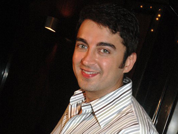 Jugal Hansraj